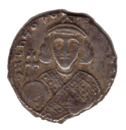 old Roman coin showing Theodosius III